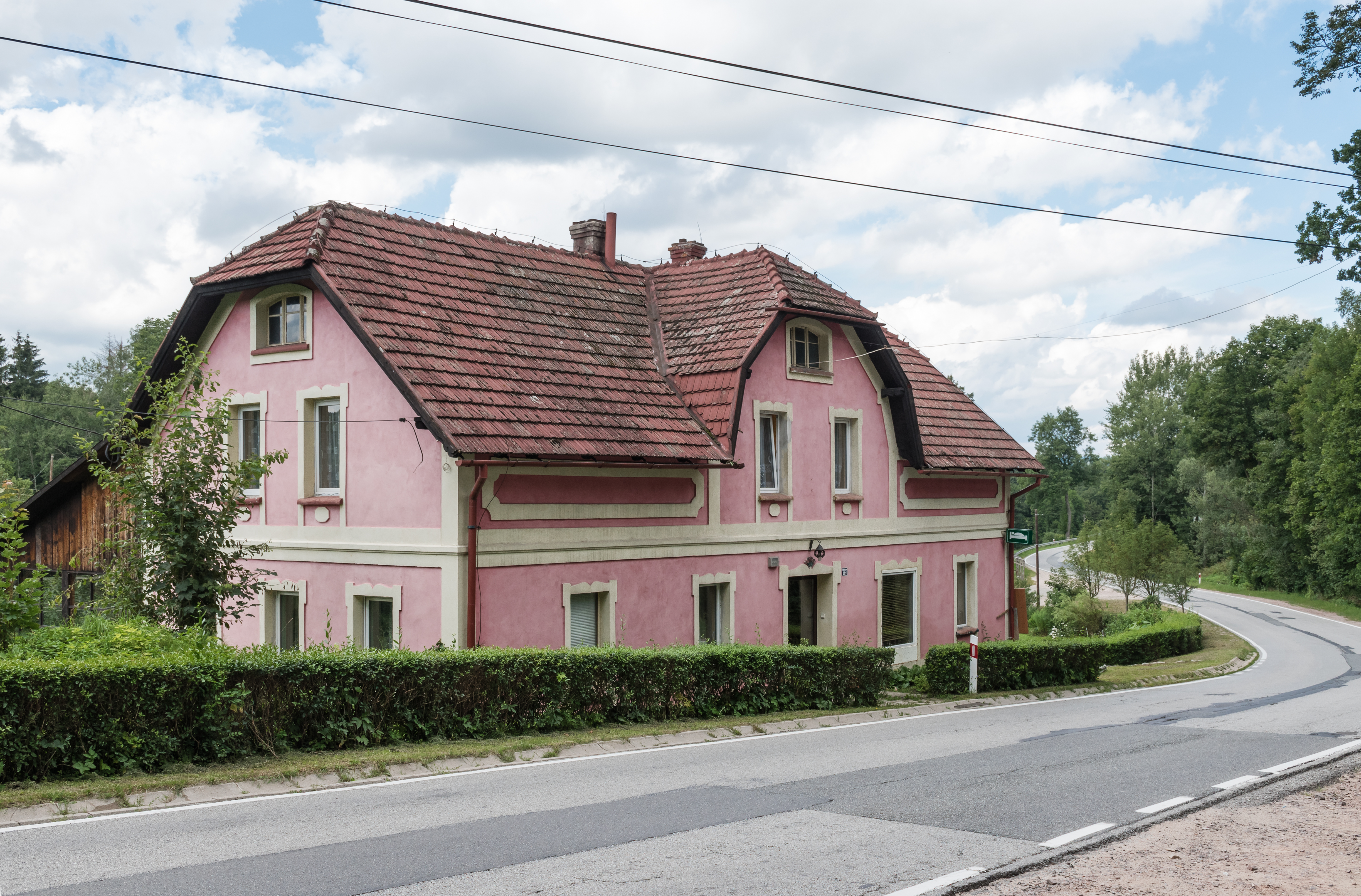 House No. 21 in Boboszów